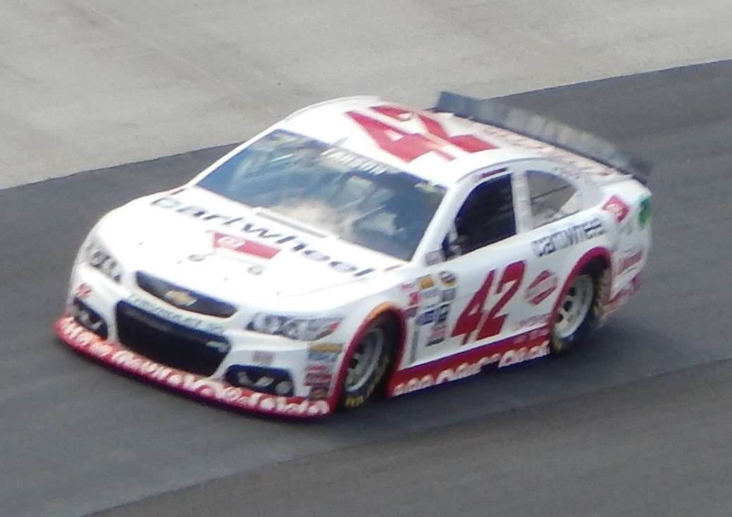 Kyle Larson was the fastest in the first practice session for the 2015 Irwin Tools Night Race at Bristol Motor Speedway.